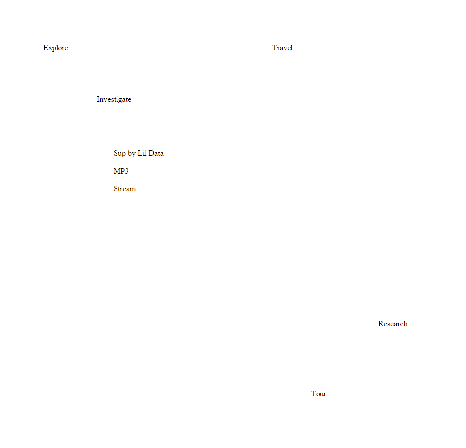 Screenshot of the promotional site for Sup by Lil Data